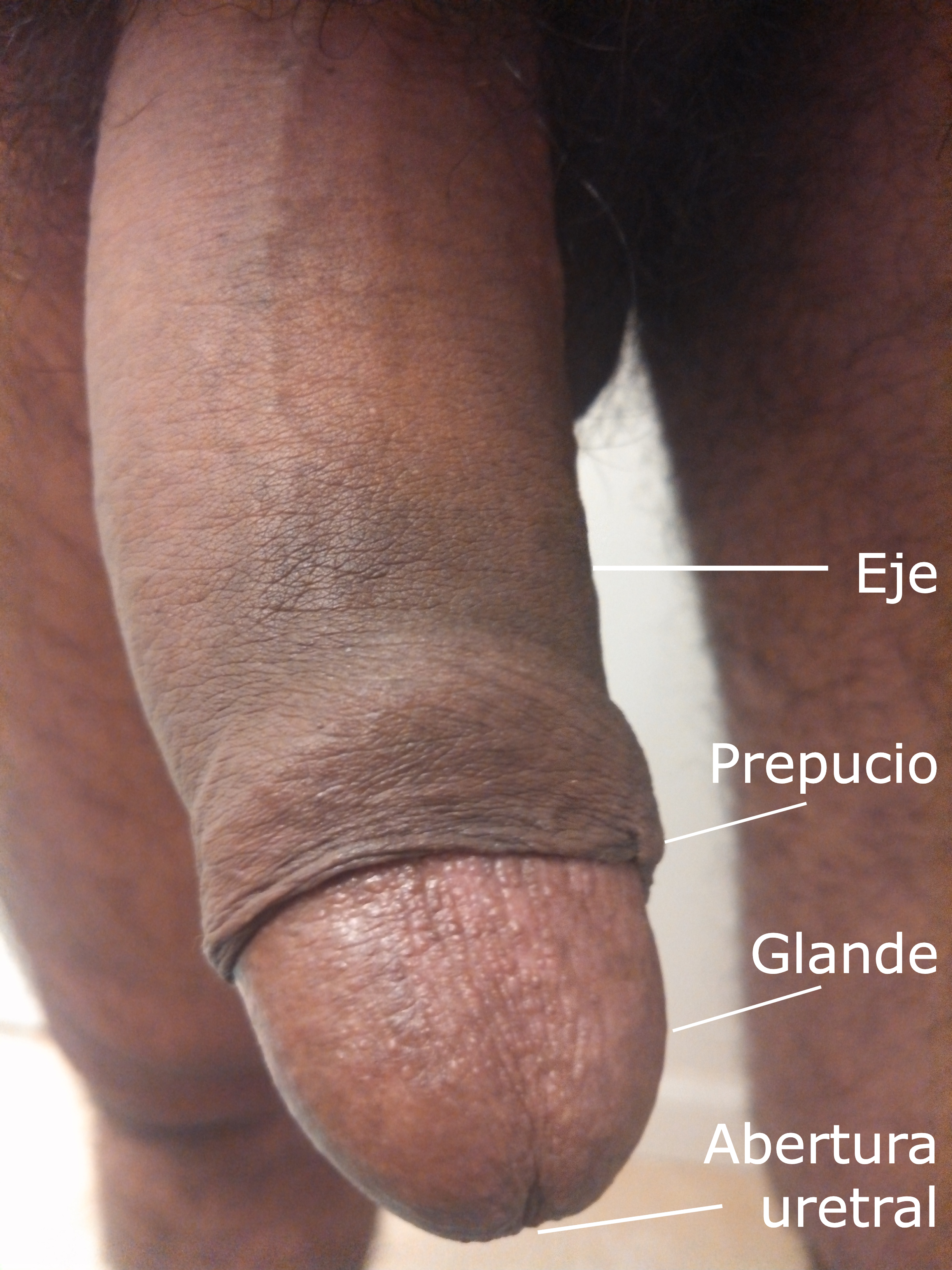 Image of foreskin close-up with Spanish descriptions